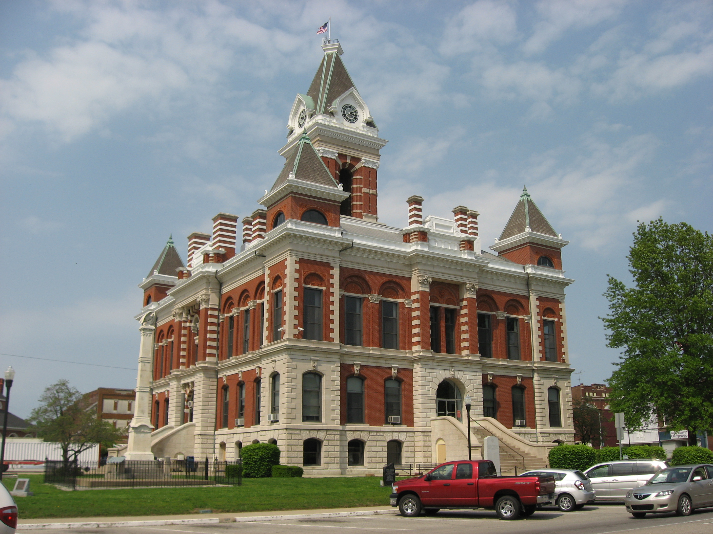 Southern front and western side of the Gibson County Courthouse, located along State Roads 64 and 65 on Courthouse Square in downtown Princeton, Indiana, United States. Built in 1883, it is listed on the National Register of Historic Places, and it is a part of the locally-designated Courthouse Square Historic District.